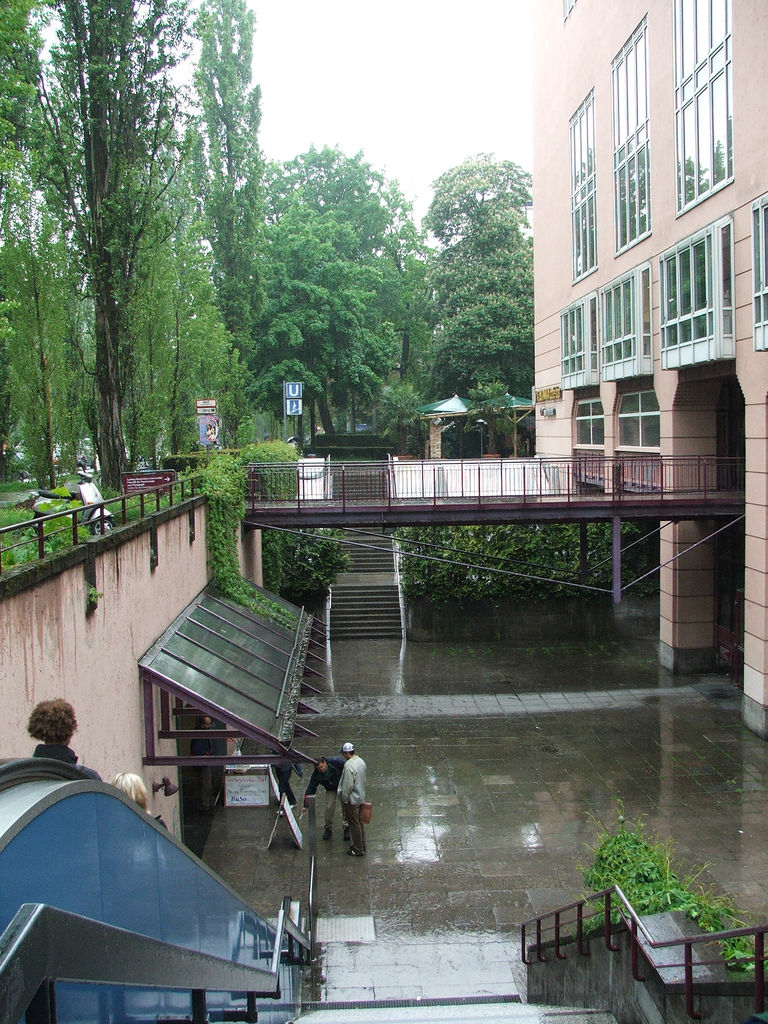 / Ratr: 29.2% (24 ratings)